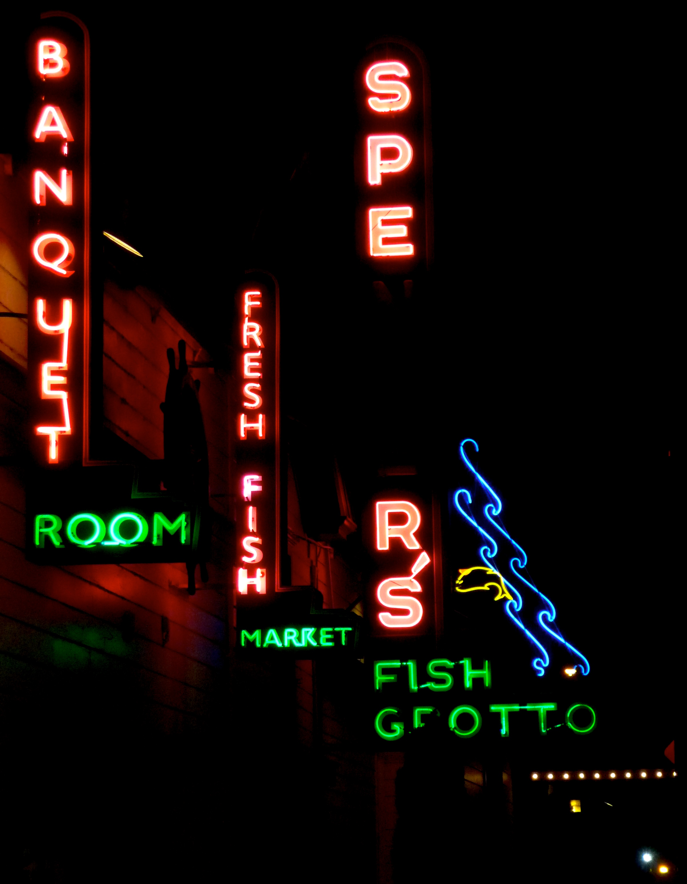 Spenger's Fish Grotto, an institution in West Berkeley. We used to live down the street from a lightbulb store in L.A. (Lightbulbs Unlimited) that, for 7 years, never fixed the lightbulbs in its own sign. The neon always read: "Lightbulbs Unl." This reminded me of that.